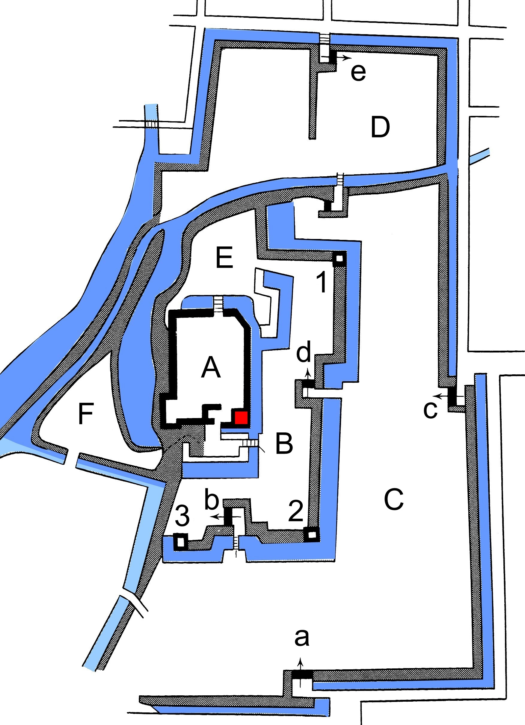 Layout of old Hirosaki castle Japan